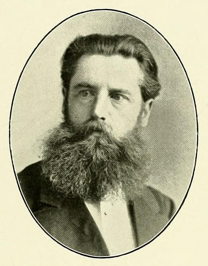 Portrait of the German mycologist Oscar Brefeld